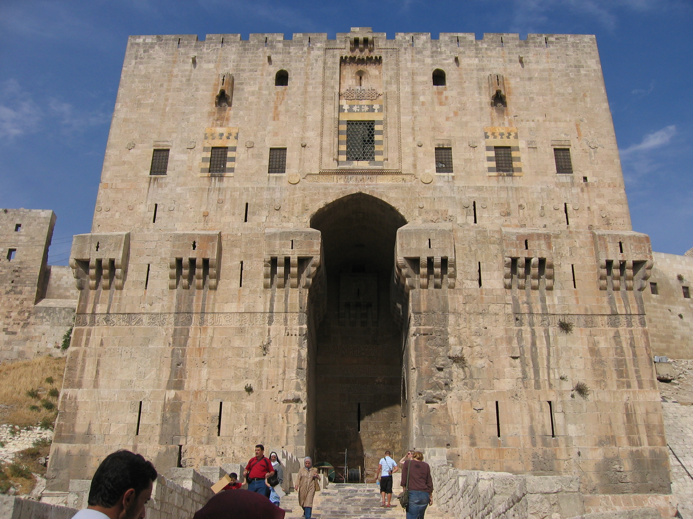 Description: Inner Gate of the Aleppo Citadel